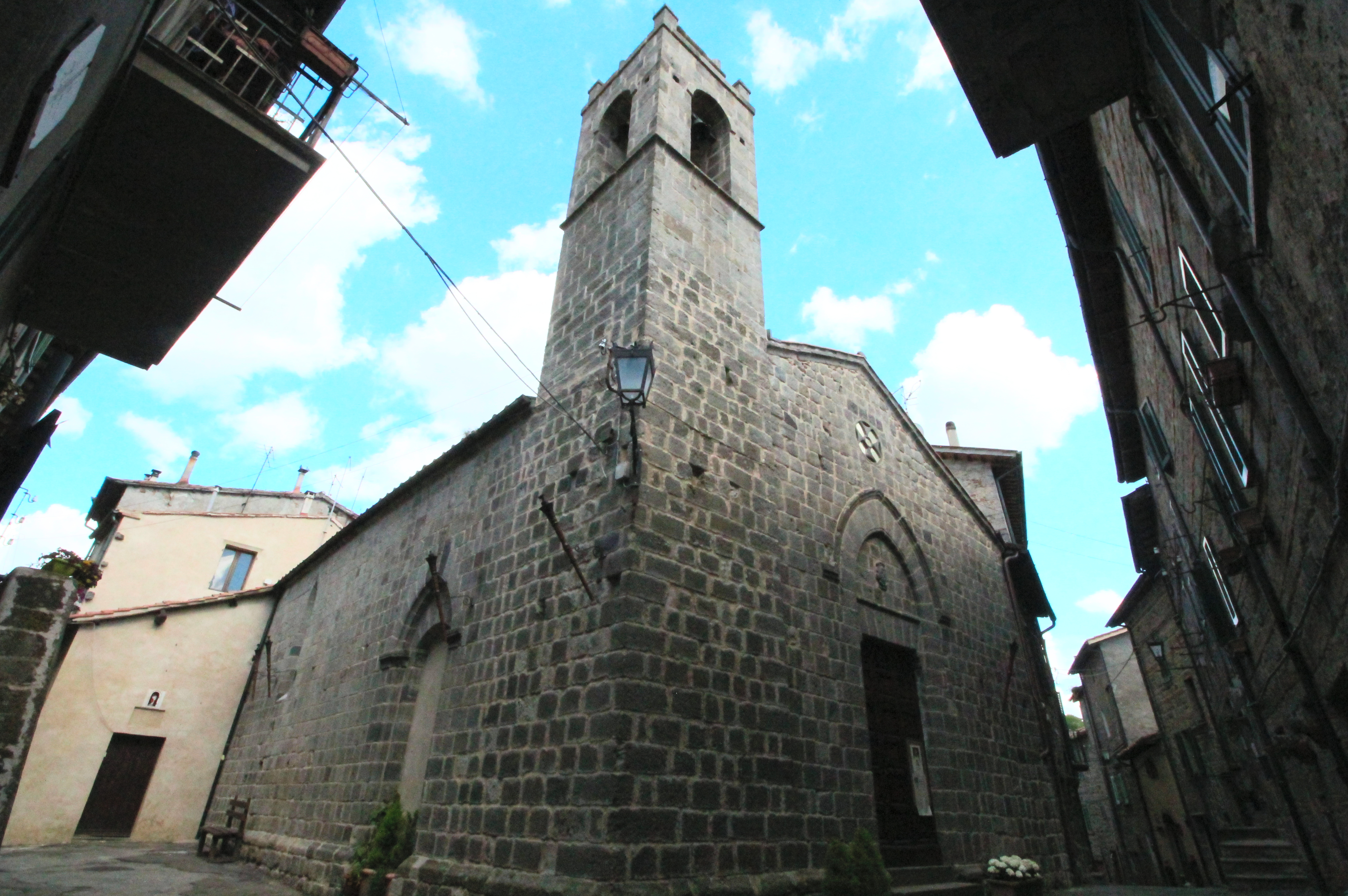 Church San Leonardo, Abbadia San Salvatore (Borgo), Province of Siena, Tuscany, Italy